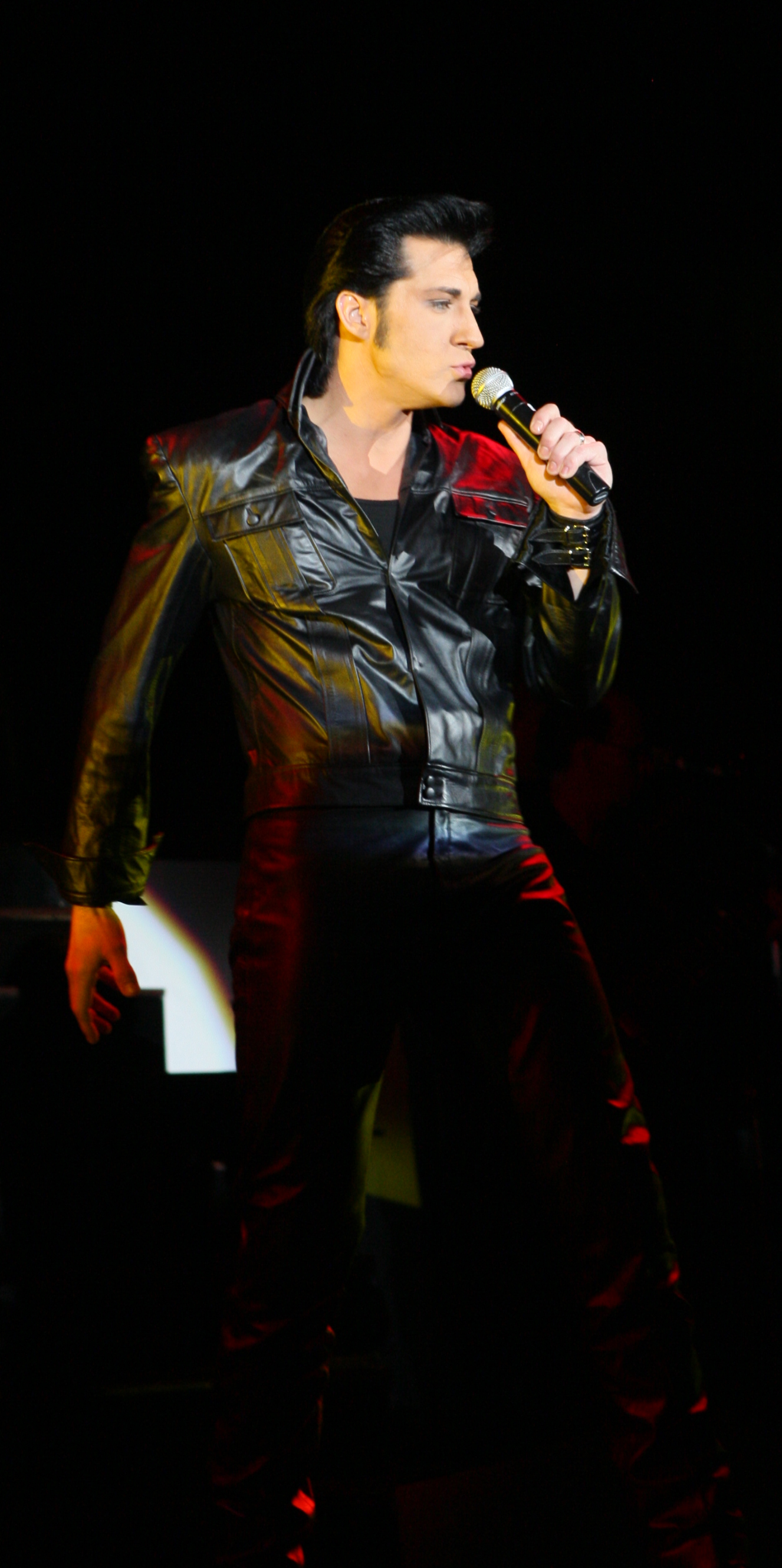 The legendary king of rock drives the crowd crazy as he performs his sexy hip shake to a Hound Dog at Legends in Concert, Myrtle Beach, Dec 6.